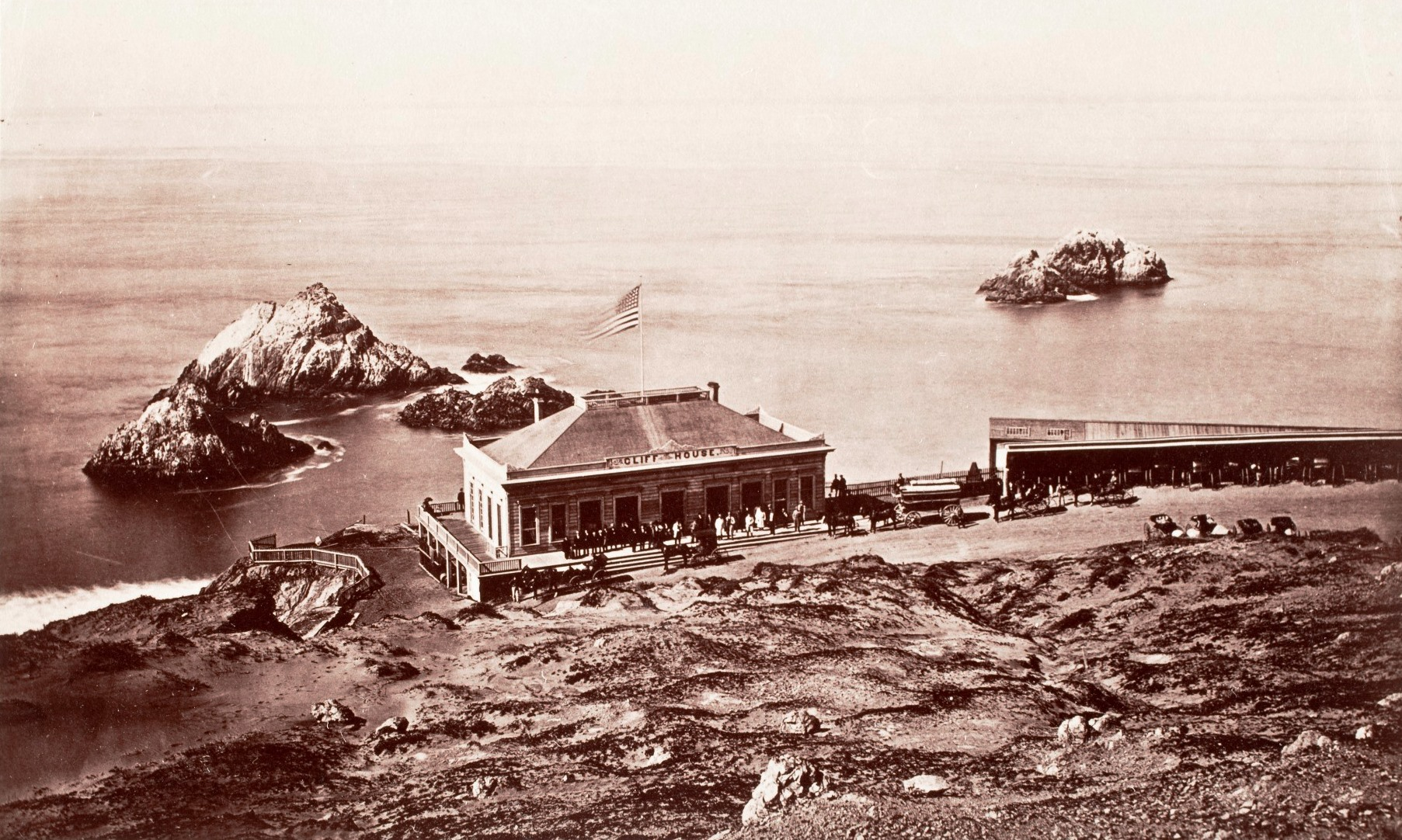 United States, circa 1868 Photographs Albumen print Gift of Graham and Susan Nash (M.91.359.74) Photography